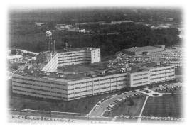 The Communiations-Electronics Research and Development Engineering Center, better known as the Albert J. Myer Center, or simply, the Hexagon.